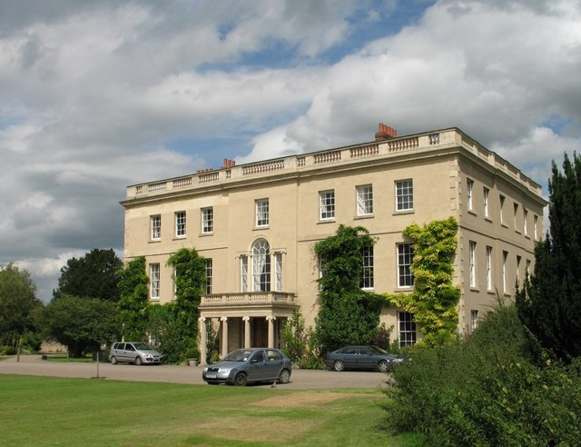 Waterperry House and garden, Waterperry, Oxfordshire